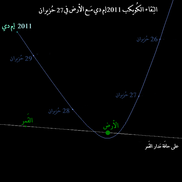 Trajectory of near-Earth asteroid 2011 MD passing Earth about 9.30 EDT on June 27, 2011.